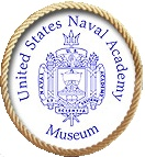 Logo of the U.S. Naval Academy Museum.